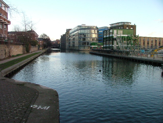 Battlebridge Basin. Battlebridge because Boudica gave the Romans a spanking here in 61AD. papermaking, bottling, marmalade and jam making have been more recent activities in this area.